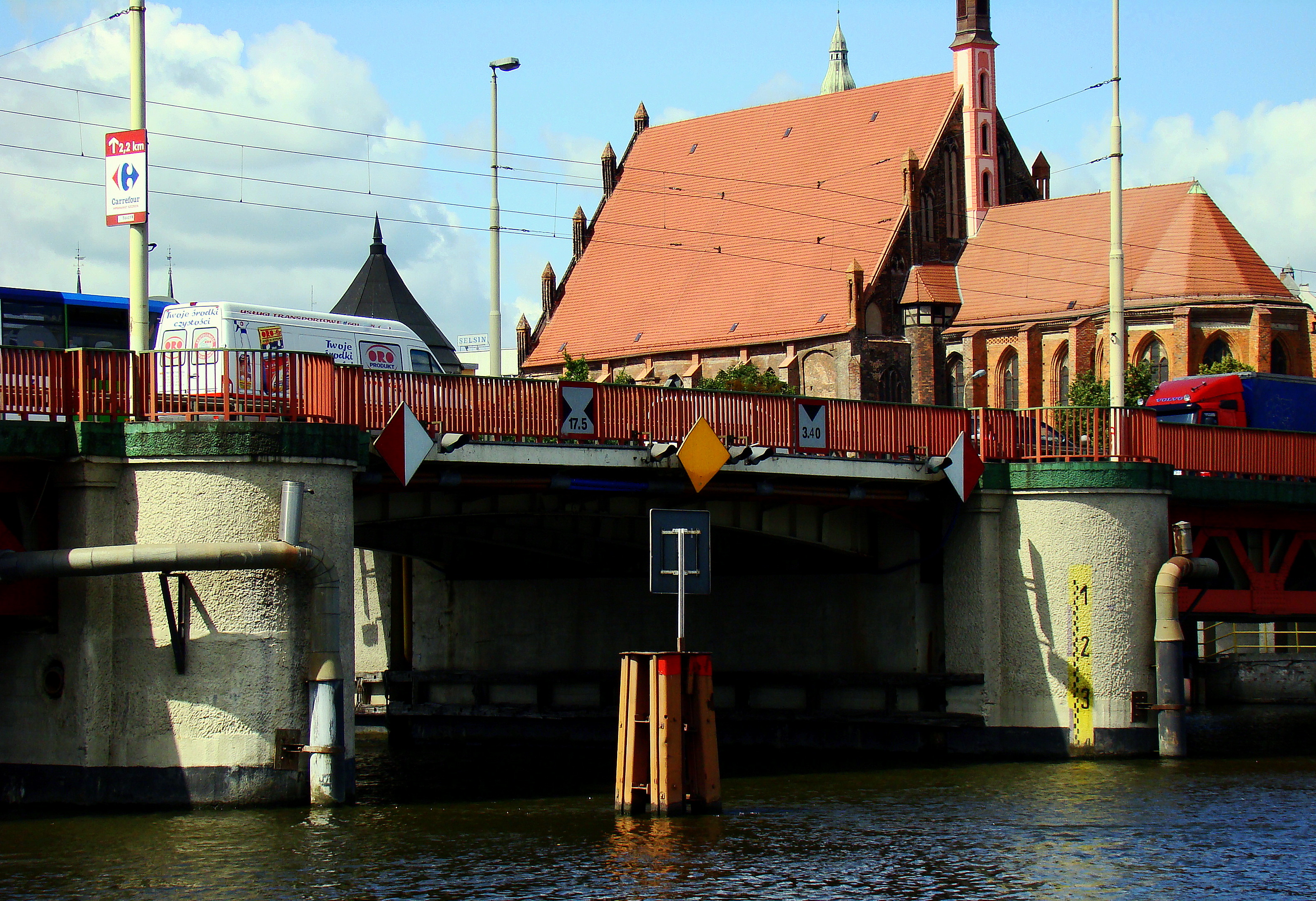 Dlugi Bridge, Szczecin, Poland